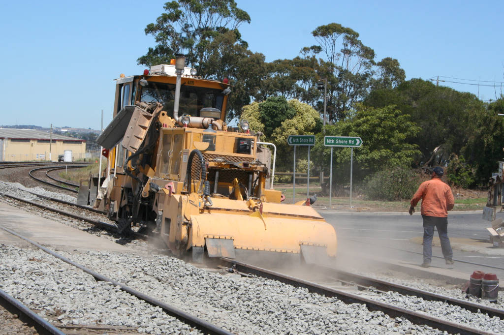 A ballast regulator in Victoria, Australia levelling ballast between the sleepers